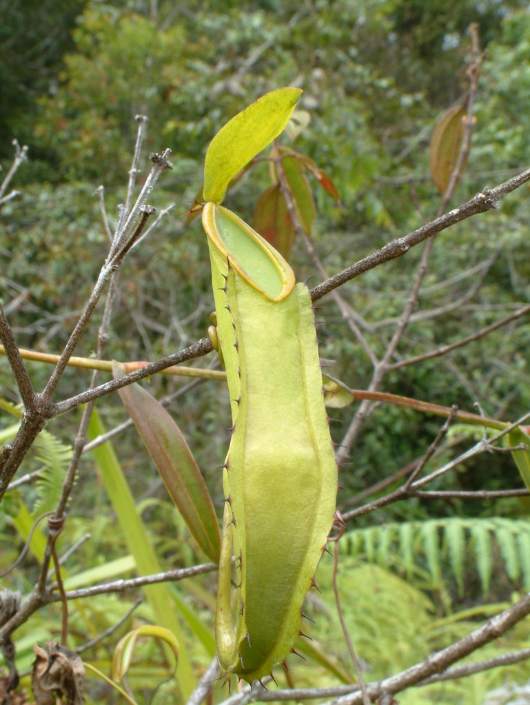 Nepenthes tentaculata from Sulawesi growing at an elevation of around 1900 m